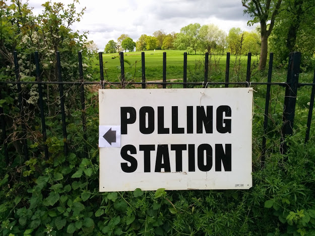 A sign with directions to a polling station on the edge of Hampstead Heath, general election 2015